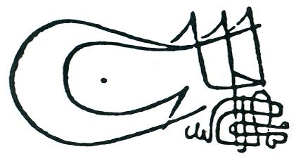 Tughra (i.e., seal or signature) of Mehmed I, Sultan of the Ottoman Empire (1413-1421). An explanation of the different elements composing the tughra can be found here.